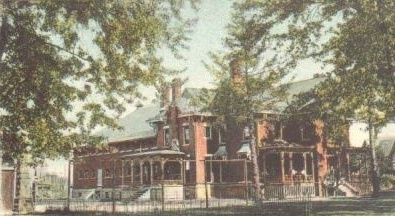 Postcard of former home of Henry M. Flagler and later D.M. Harkness Bellevue Ohio.